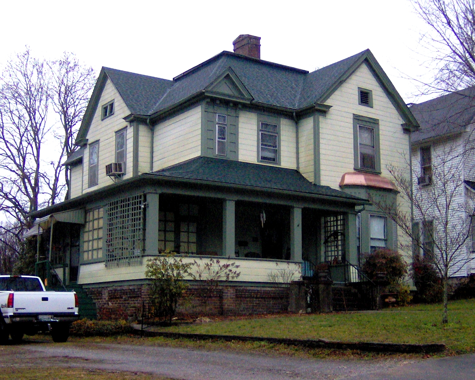 The Russell-Jackson House in the Cornstalk Heights Historic District in Harriman, Tennessee, USA. Built in 1891 in the Eastlake architectural style by W. H. Russell, the house is believed to be the oldest in Cornstalk Heights. Russell was the second general manager of the East Tennessee Land Company, following Frederick Gates.